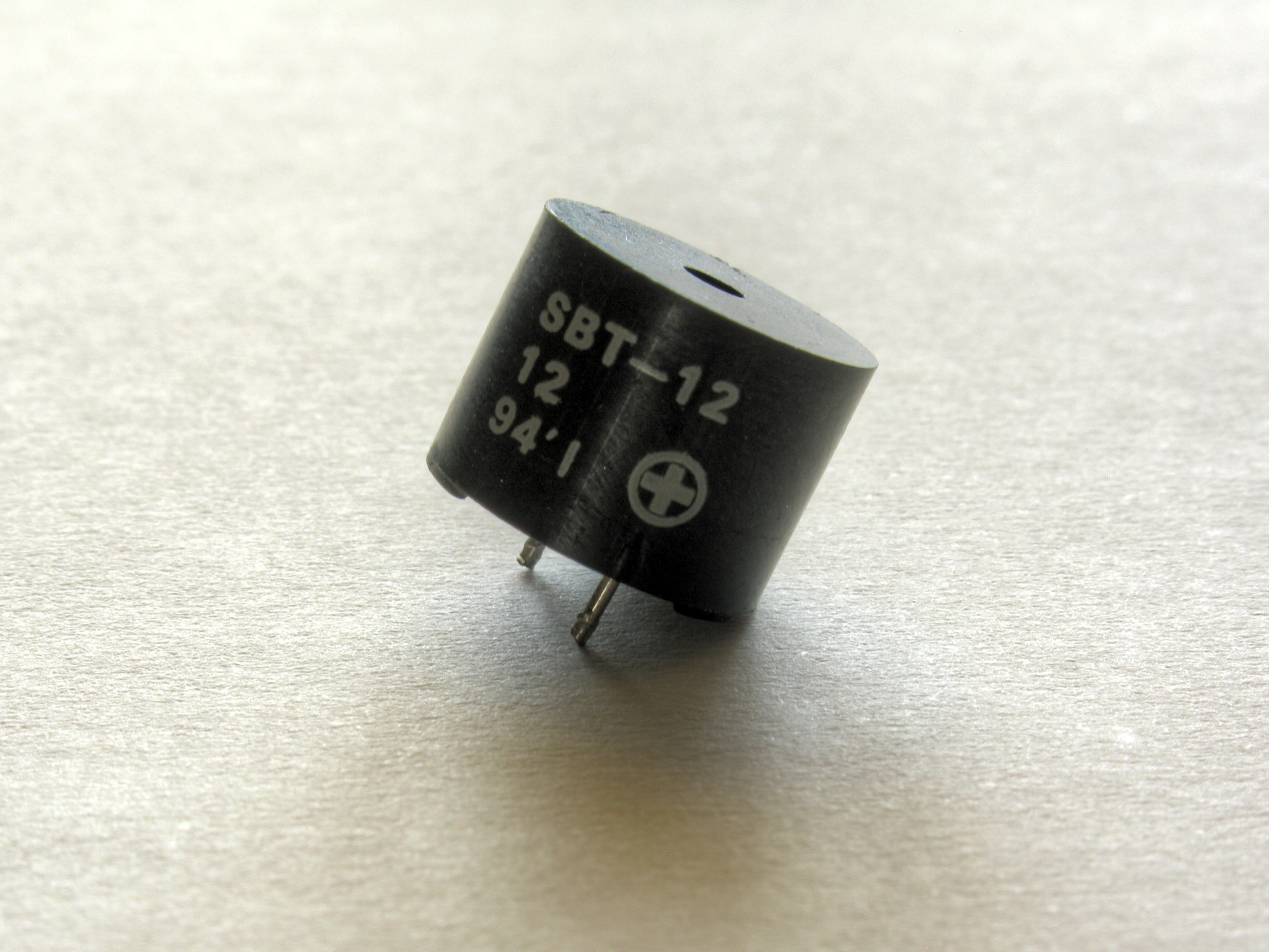 A typical electromagnetic buzzer.